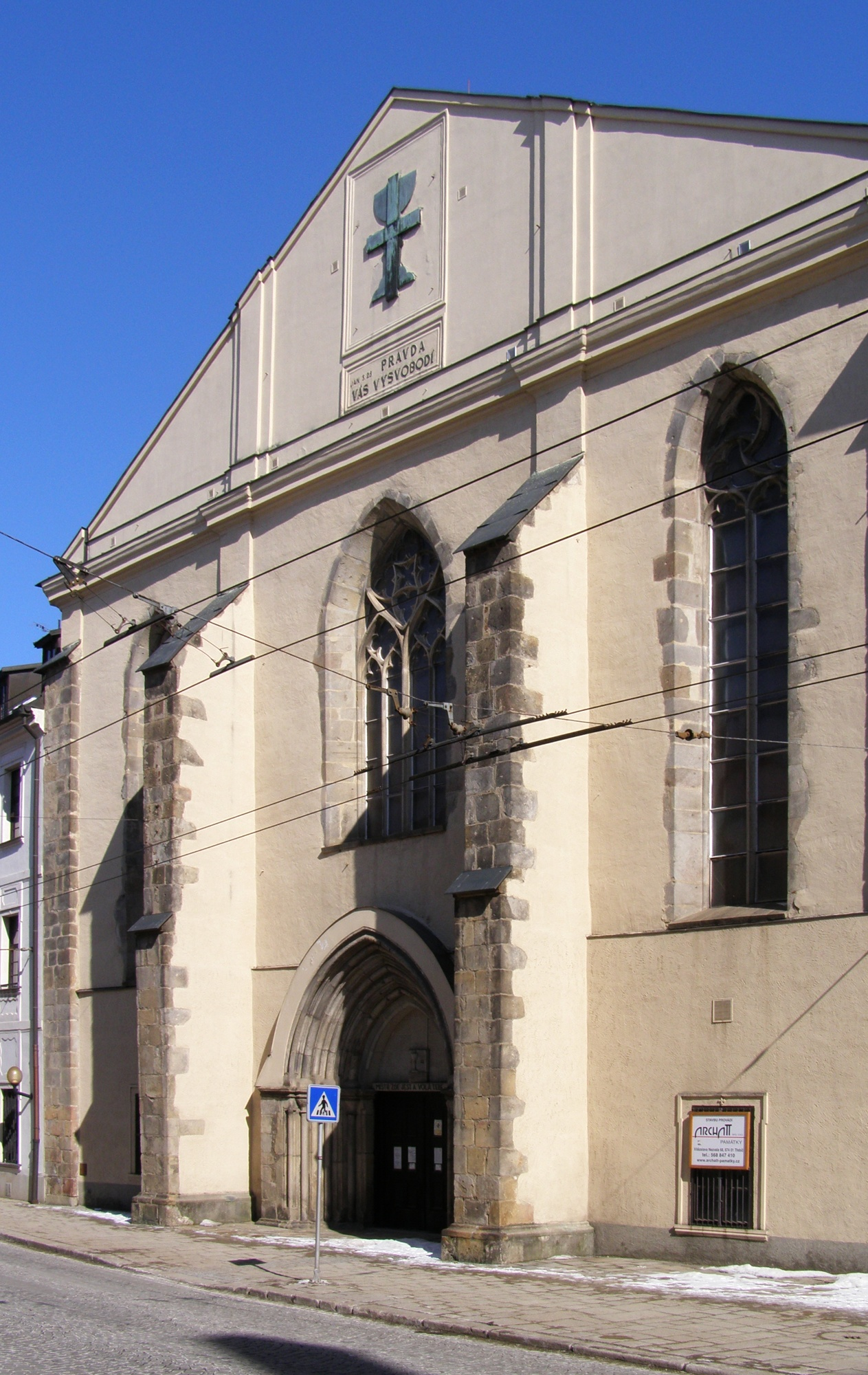 Jihlava. Exaltation of the Cross church